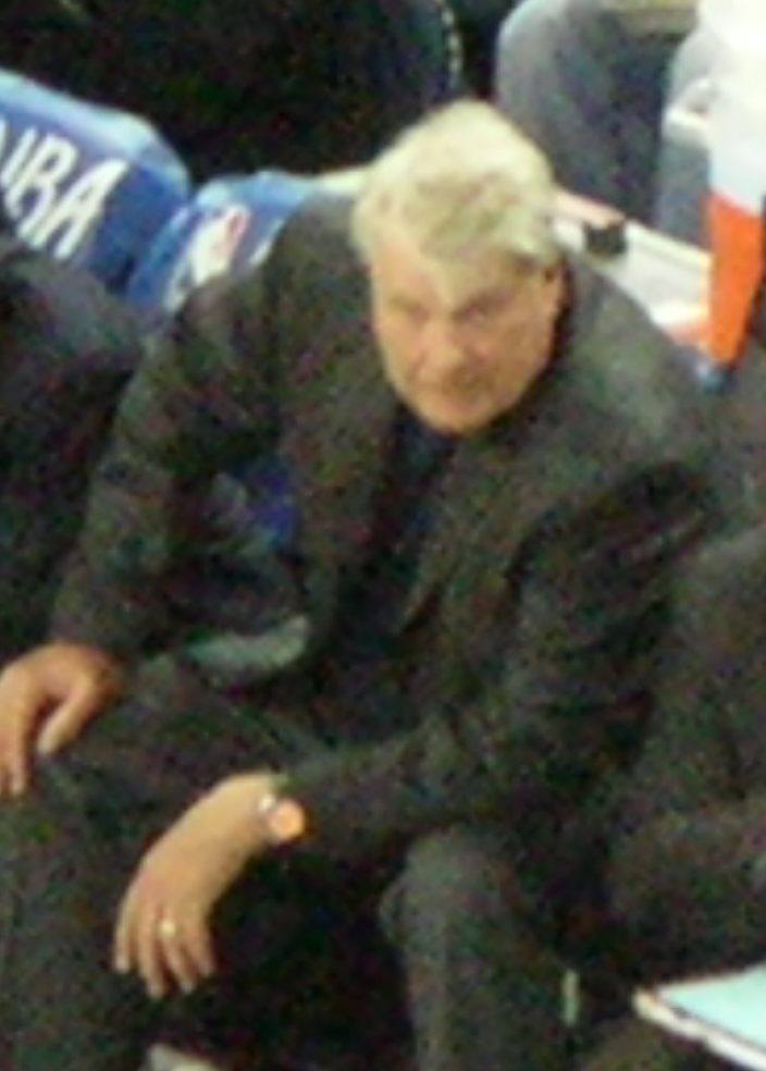 Golden State Warriors head coach Don Nelson during a home game against the Phoenix Suns. The Suns won 154-130.